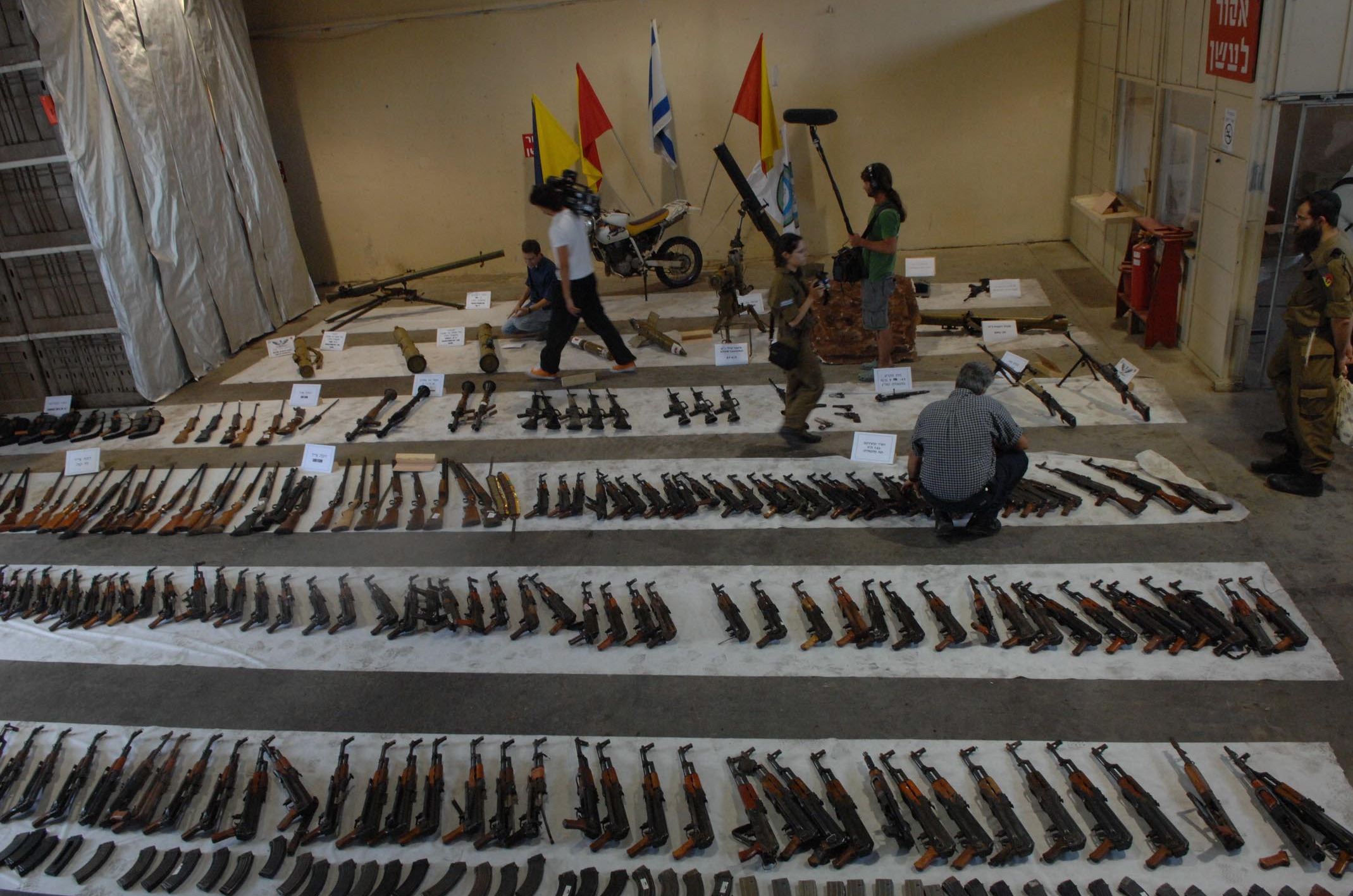 August 9, 2006 Weaponry Captured During Second Lebanon War